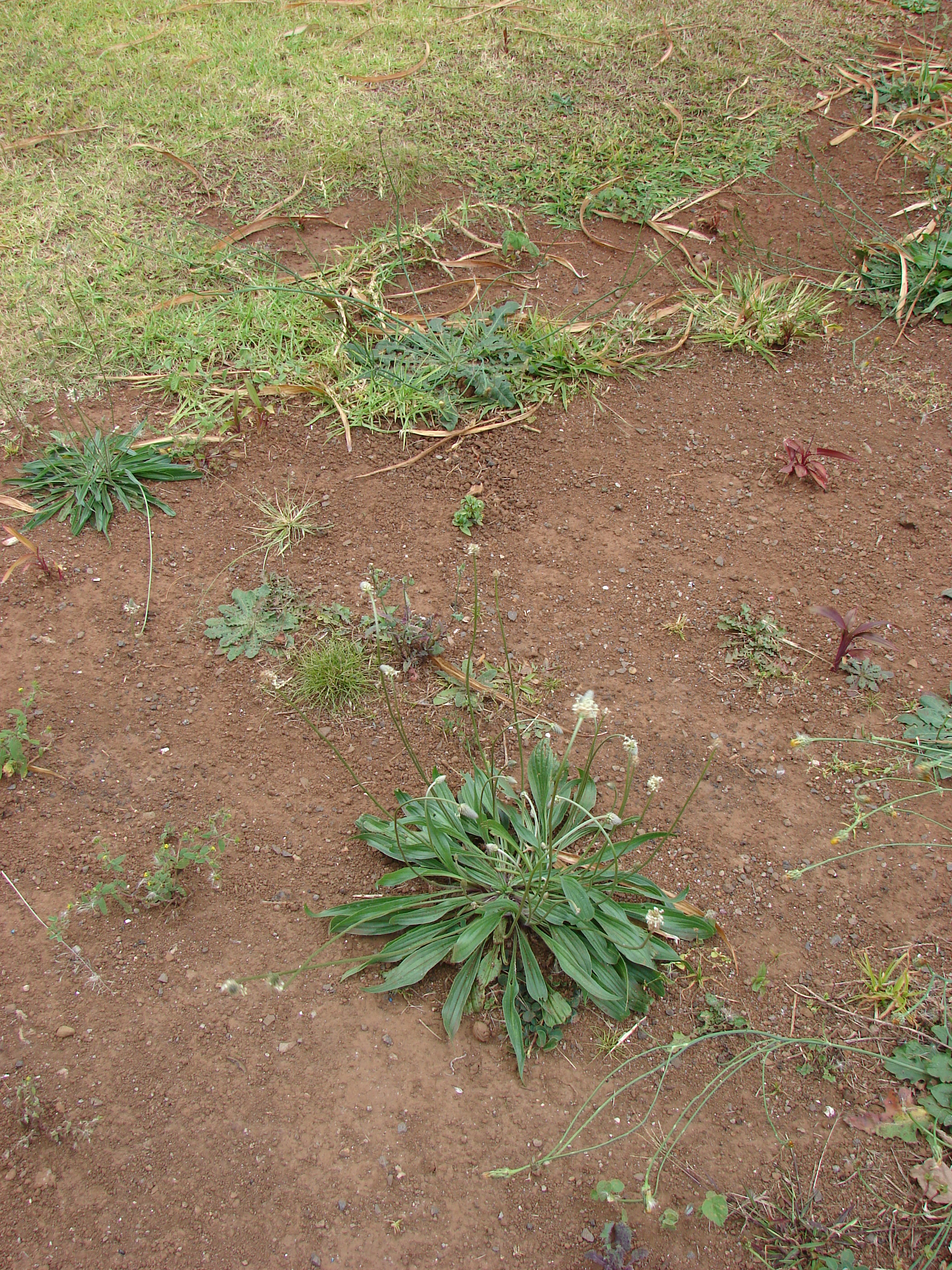 Plantago lanceolata (habit). Location: Maui, Makawao